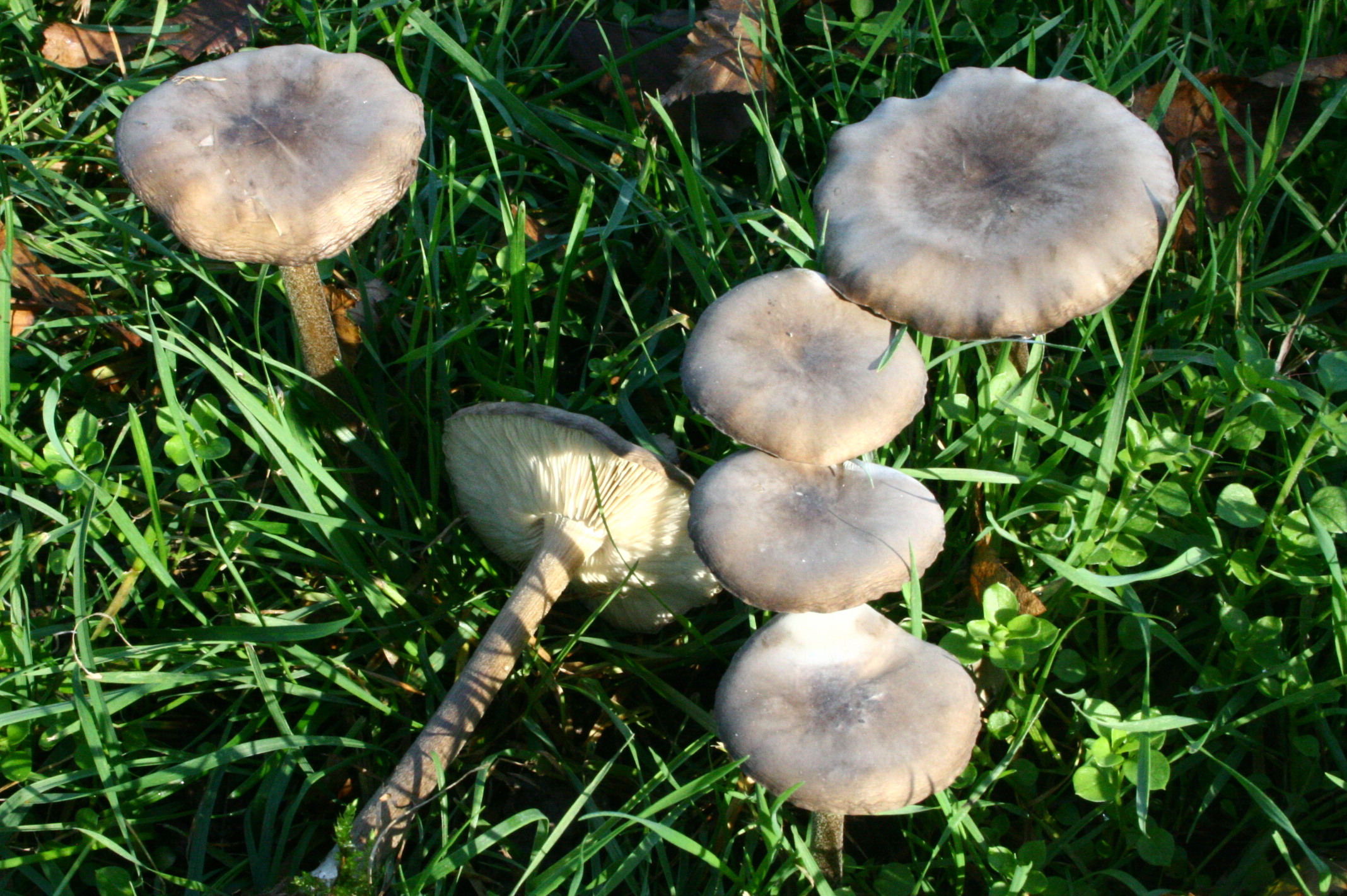 Melanoleuca (unknown species) in a park near Paris